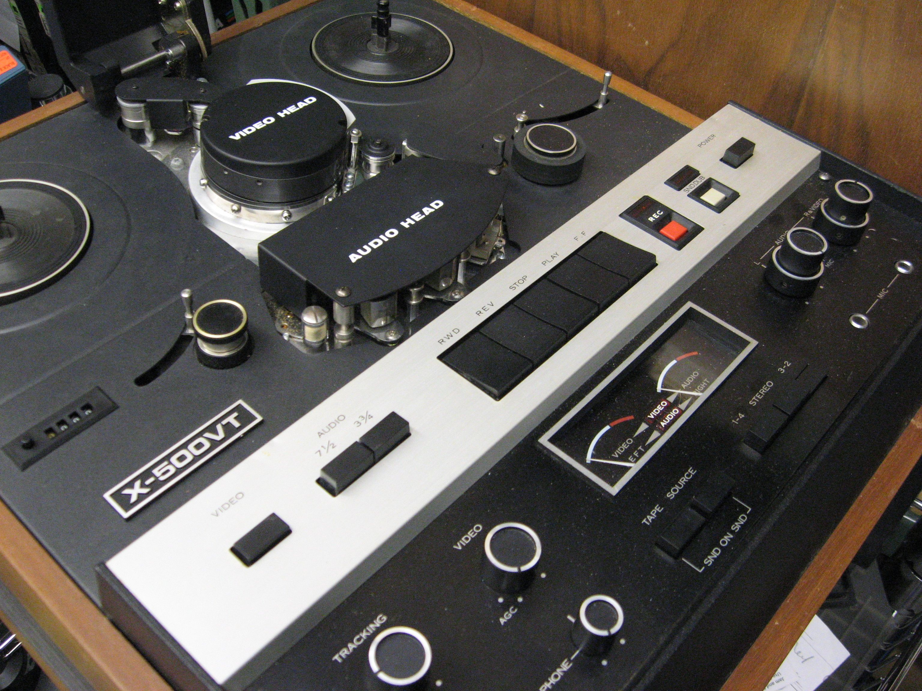 Telecineguy Akai VTR at DC Video, Burbank Ca USA My own Work